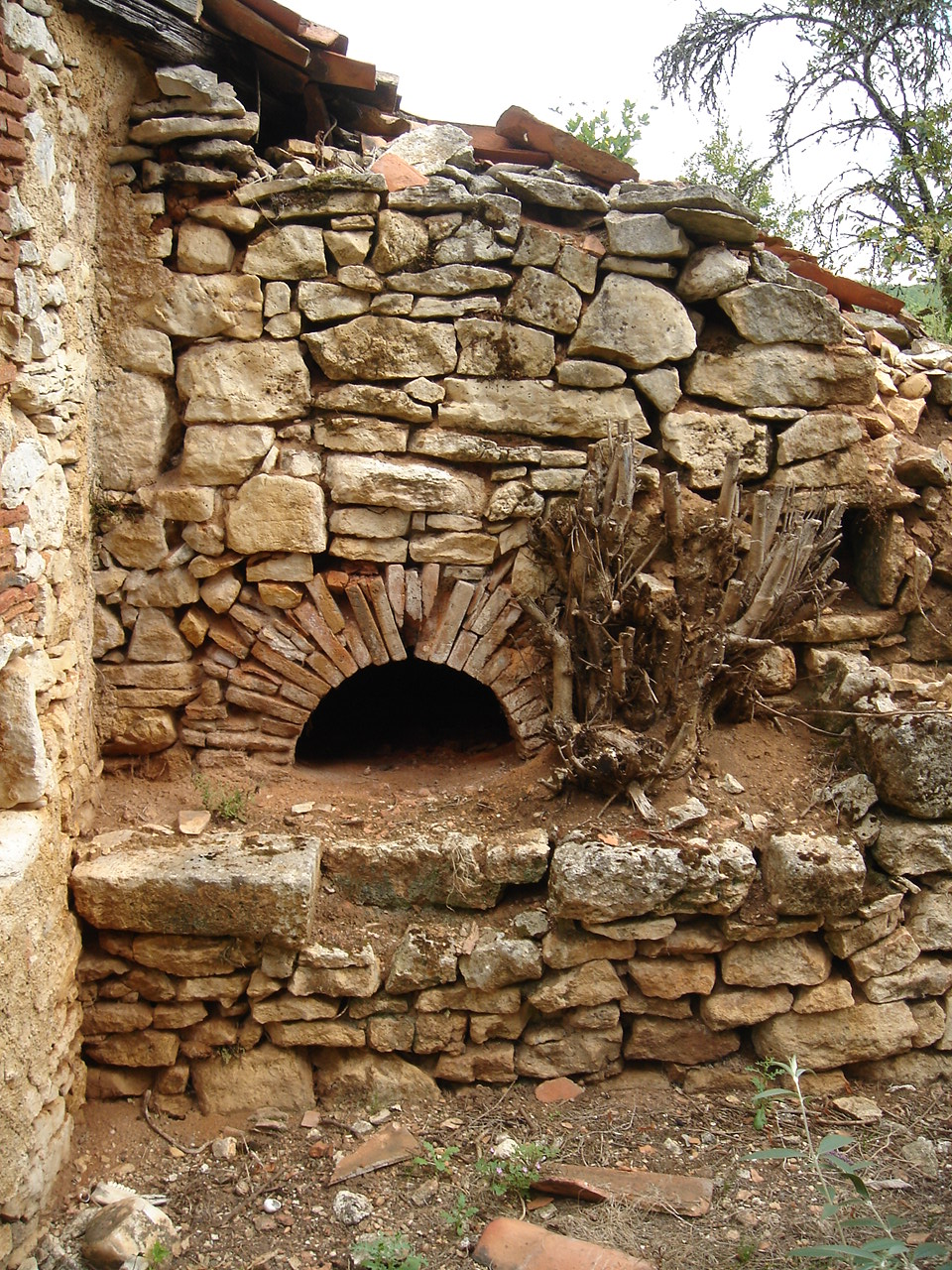 Summary